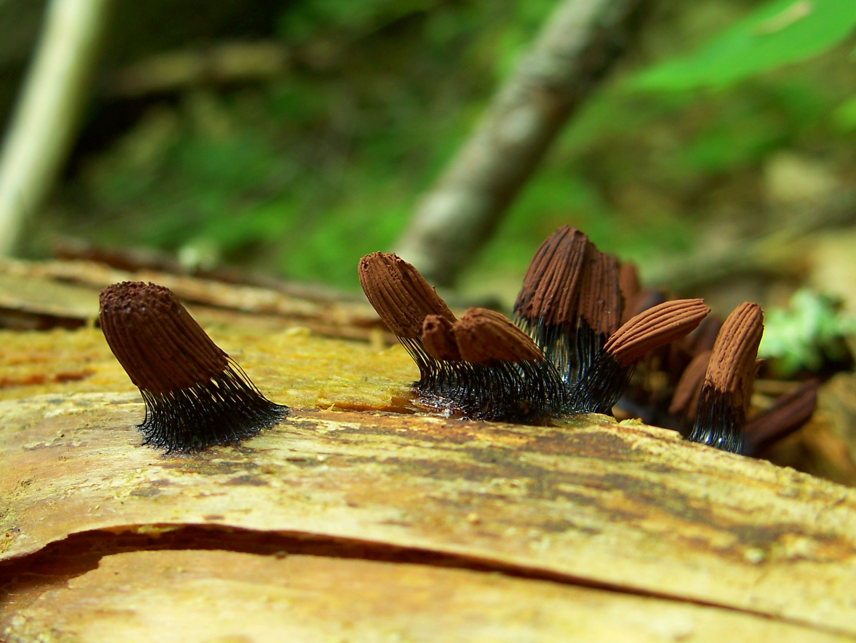 Fruiting bodies of Stemonitis fusca found on rotting downed log of Eastern Hemlock (Tsuga canadensis) during early summer of 2011 in York County, Maine.